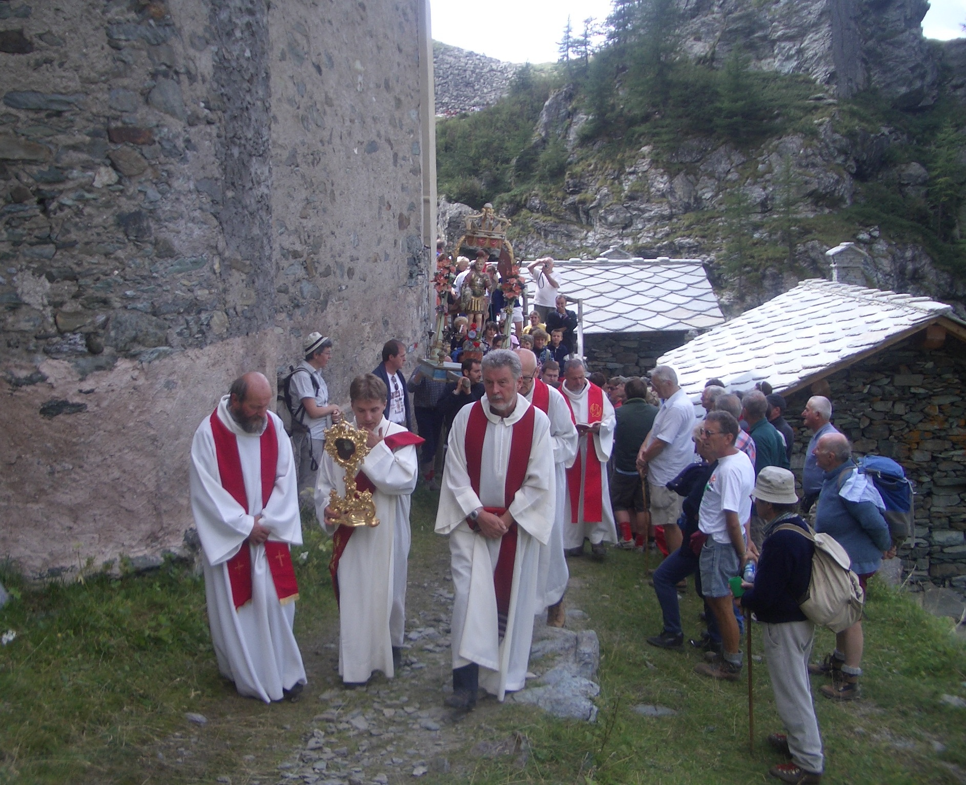 Photo of the traditional St Besso procession that takes place every year in the Alps near Campiglia, Torino, Italy. Date: August 10th 2006